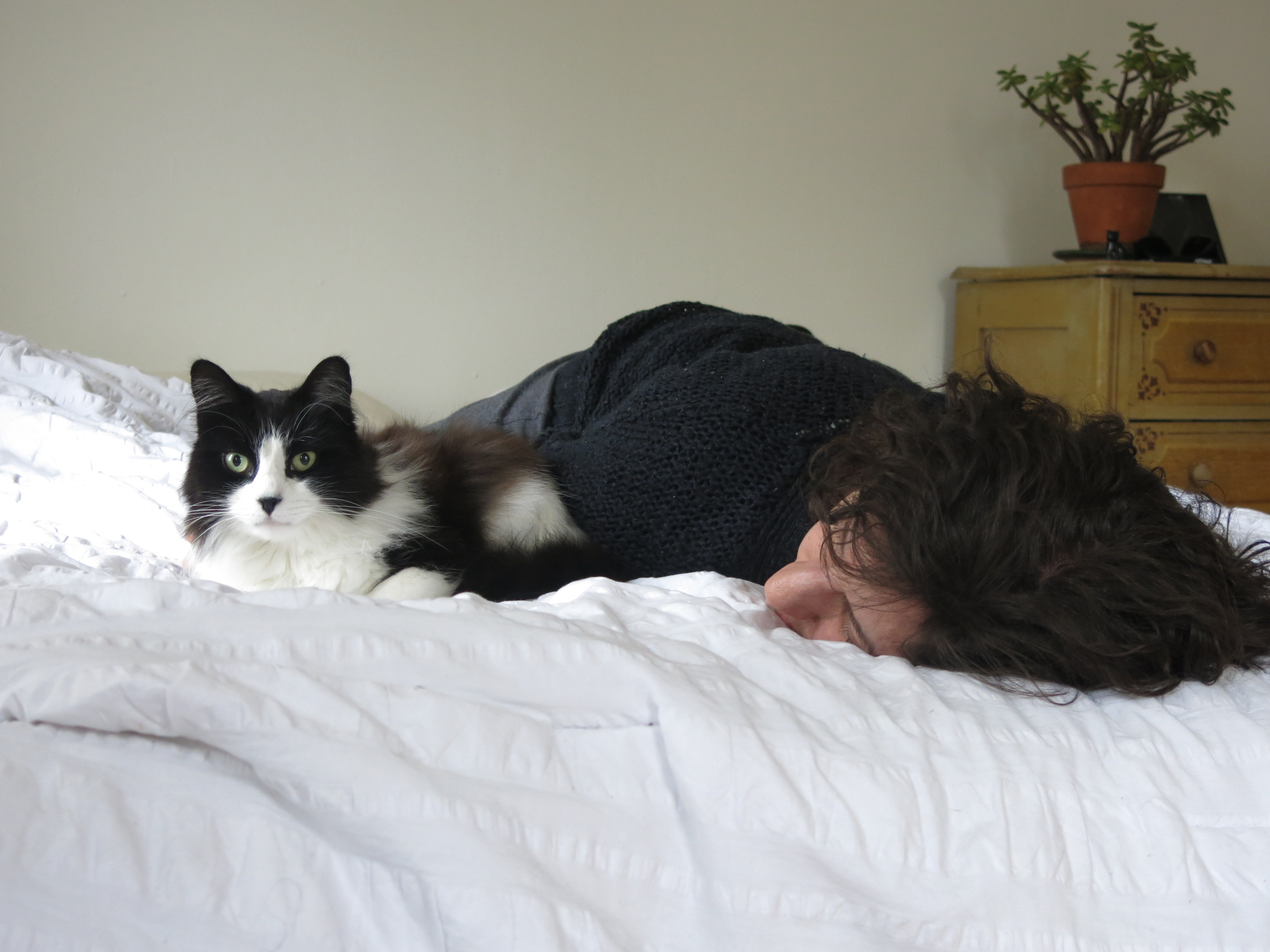 Cat and human.